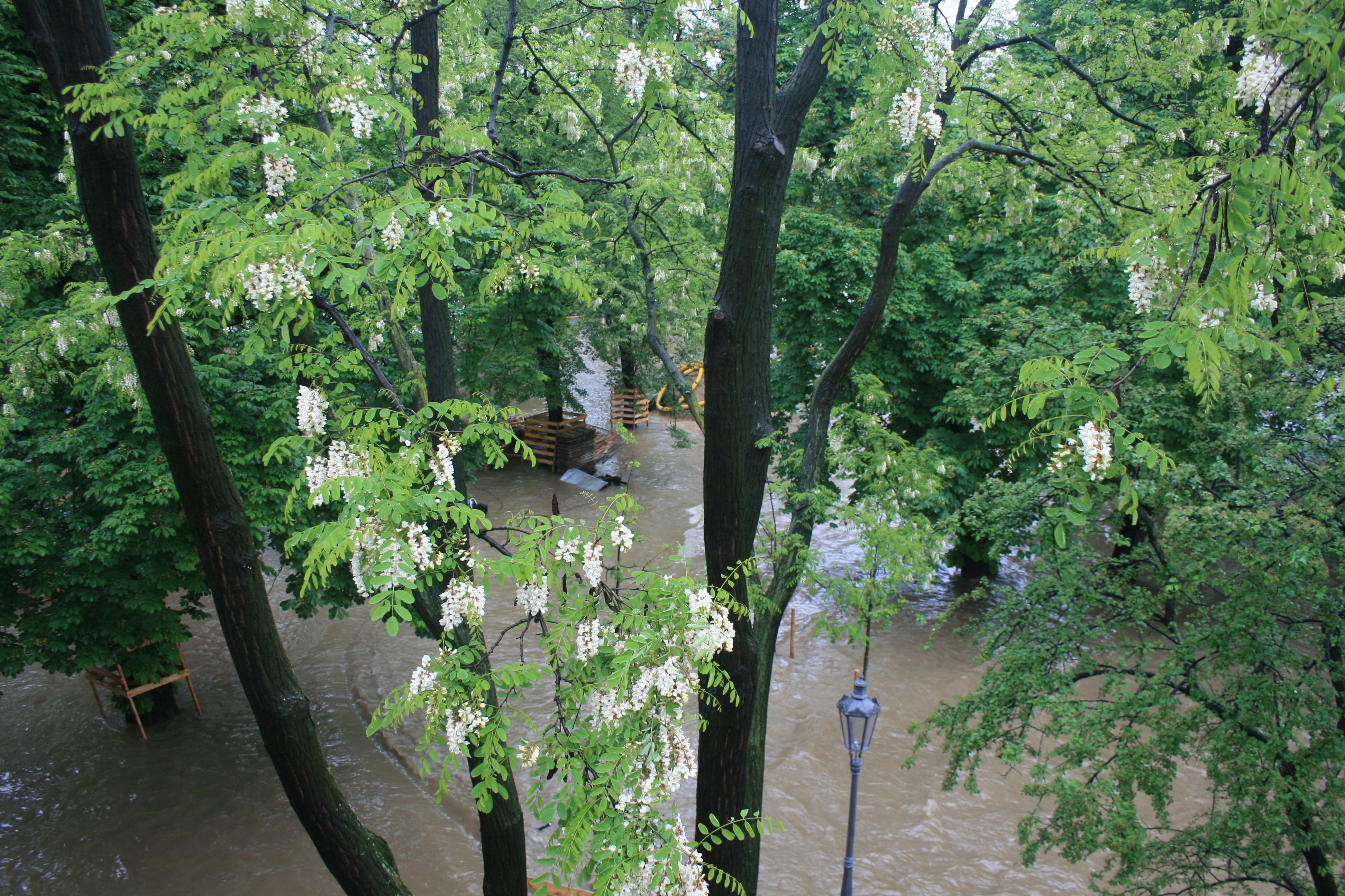 Vltava floods in Juny 2013 in Prague, Czech Republic